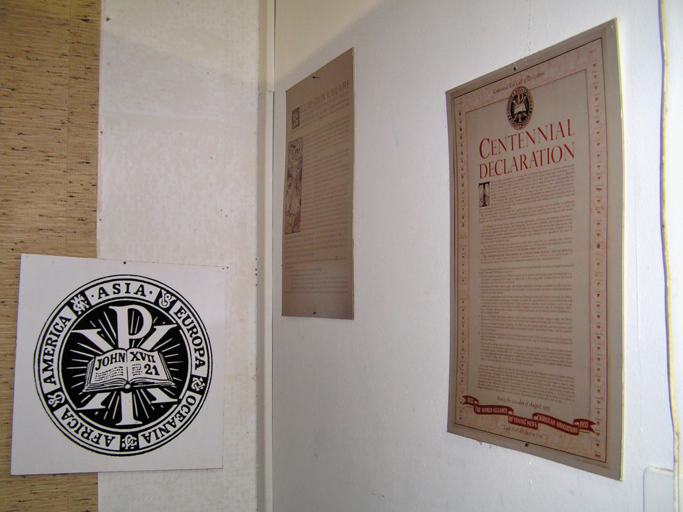 Chemin du Clos de Belmont, Genève. YMCA Archives and heritage logo.